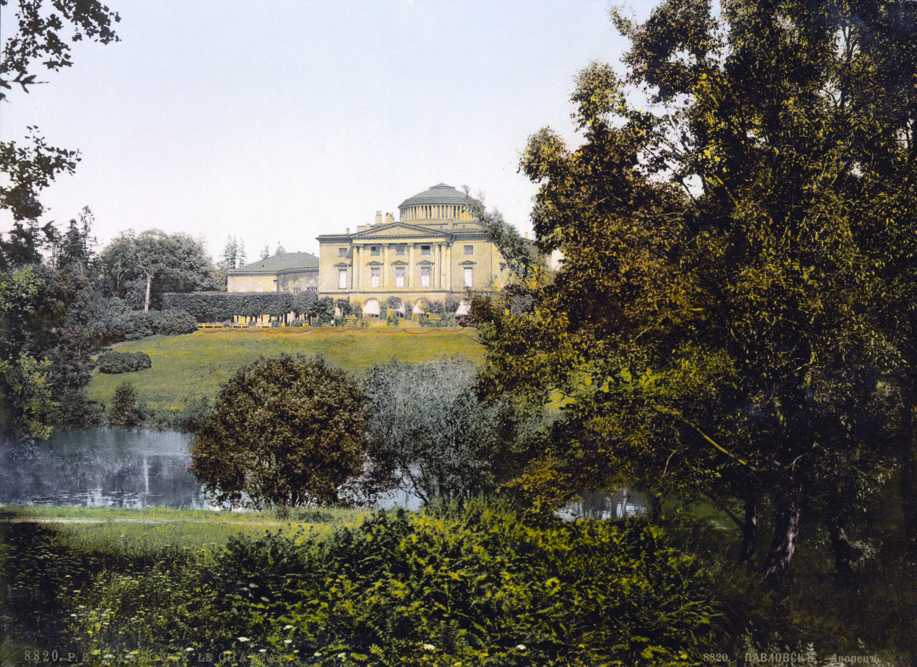 View on palace in Pavlovsk from park (in around of the St Petersburg, Russia). 19th-century photochrome print (1890—1900)